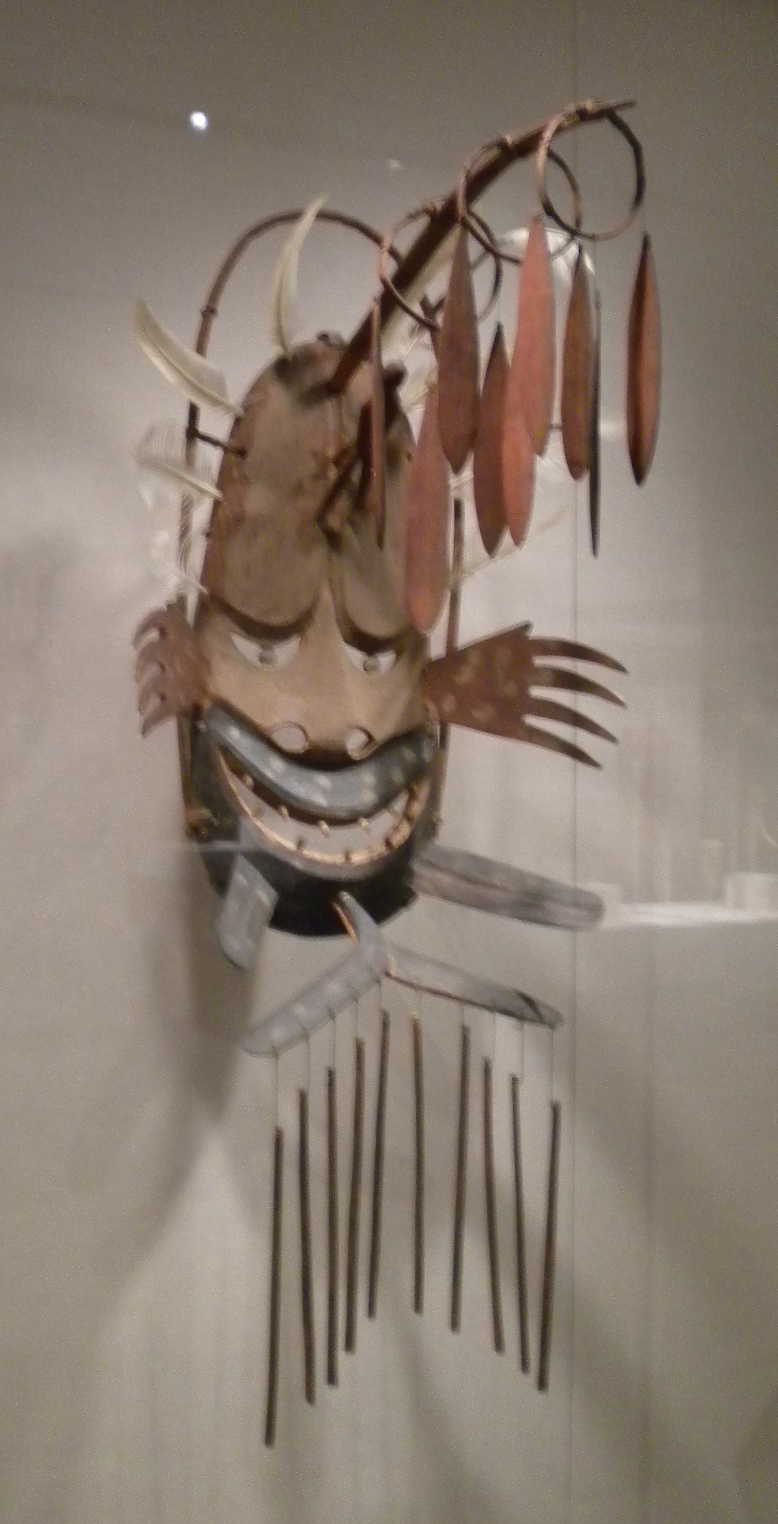 Yup'ik mask depicting the north wind (Negakfok). In the collection of the Metropolitan Museum of Art, NYC. Full catalog entry here.